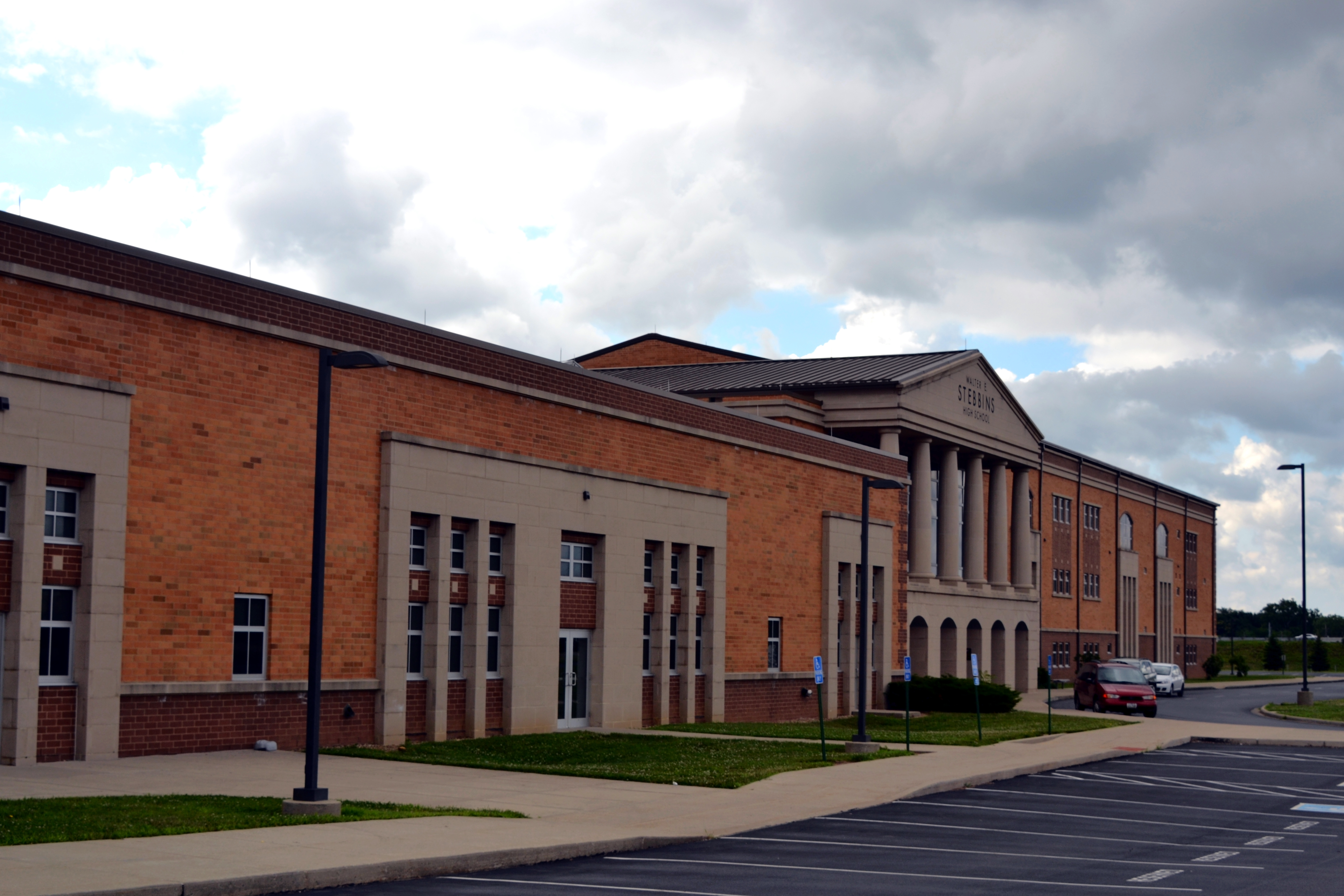 Front of Stebbins High School, located at 1900 Harshman Road in Riverside, Ohio, United States.